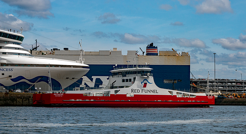 Red Kestrel at layby berth waiting her next turn at the linkspan.